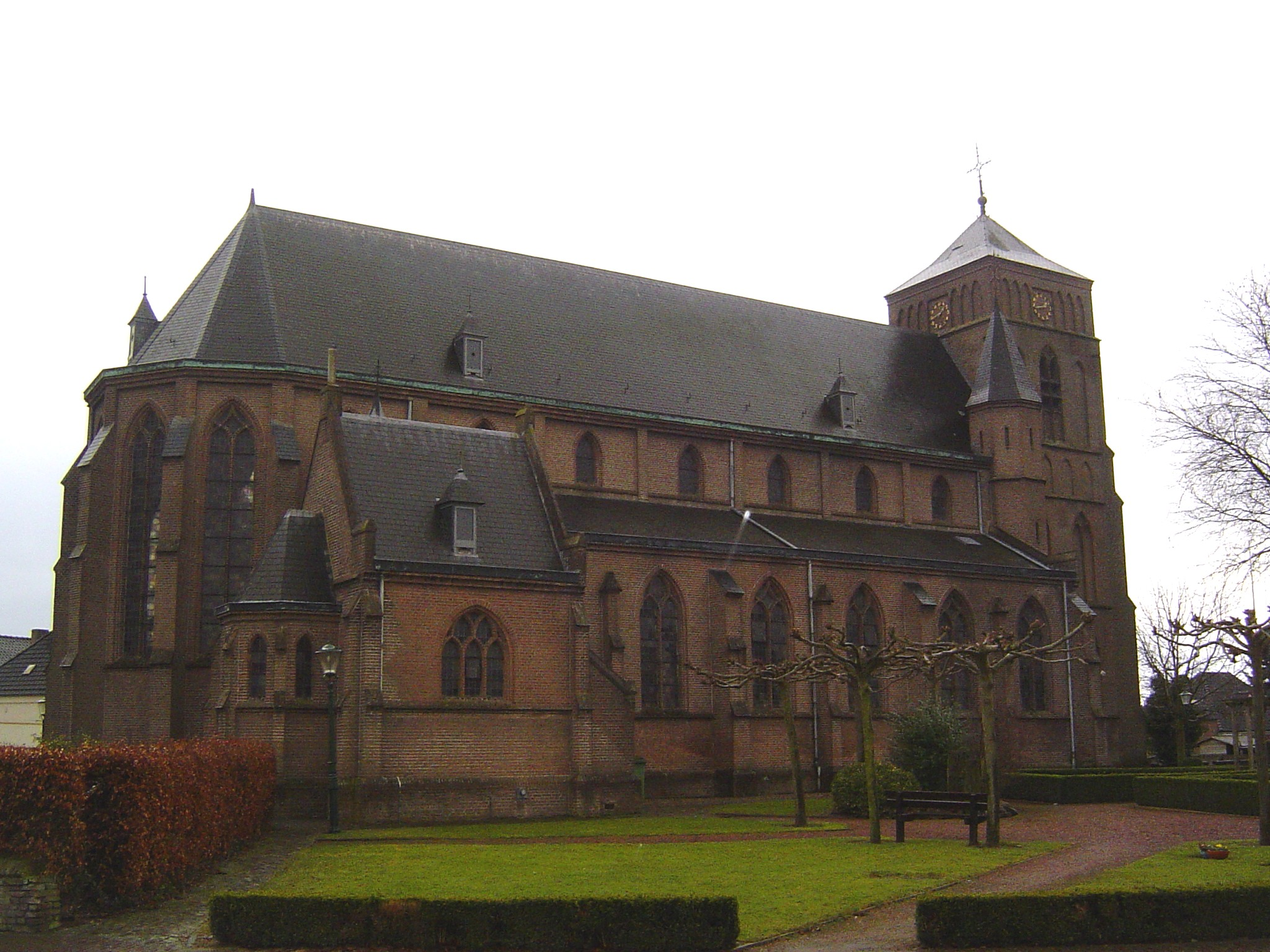 Martinuskerk - Pannerden, The Netherlands